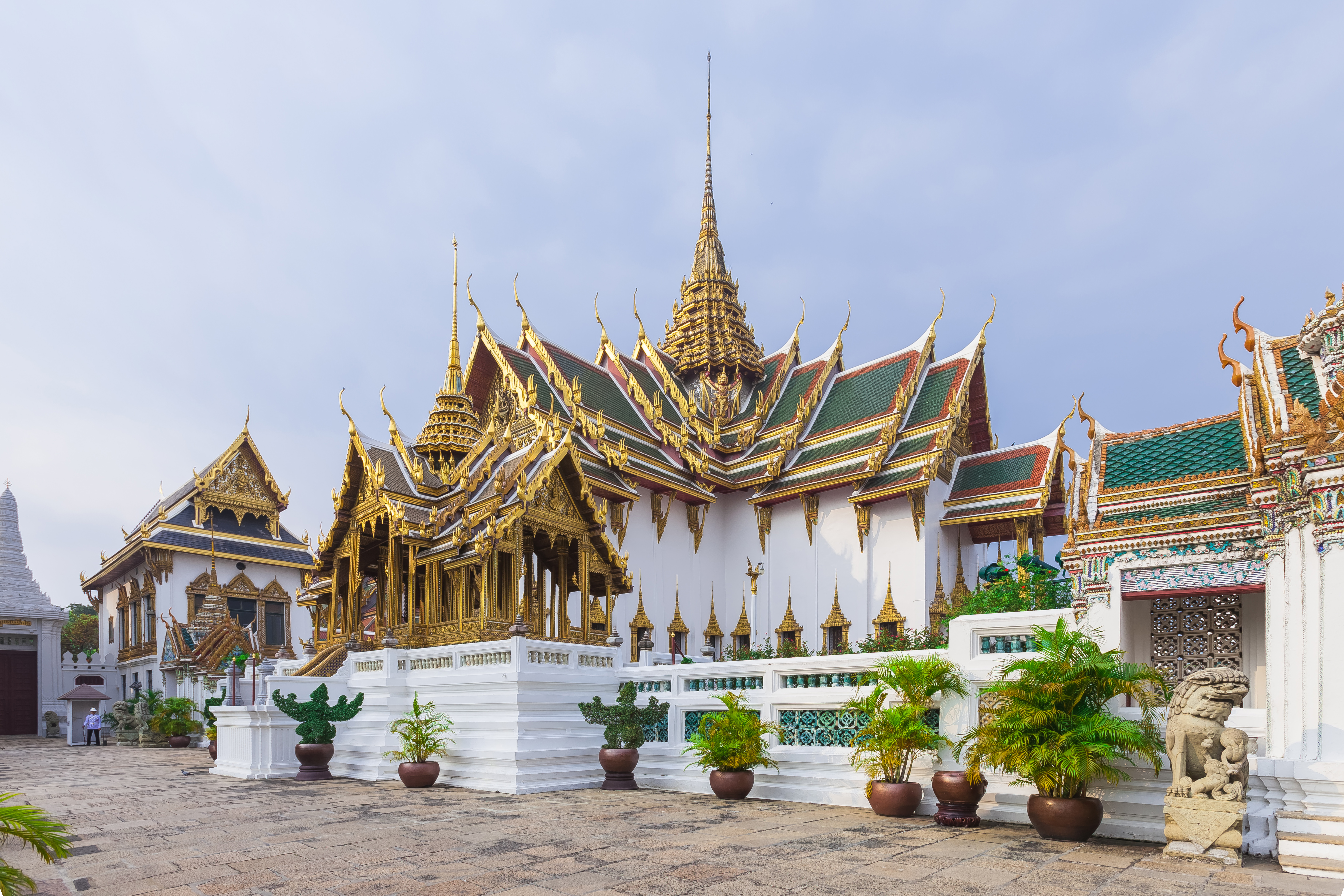 Phra Thinang Apon Phimok Prasat (Front) and Phra Thinang Dusit Maha Prasat (Behind) at Grand Palace, Bangkok.